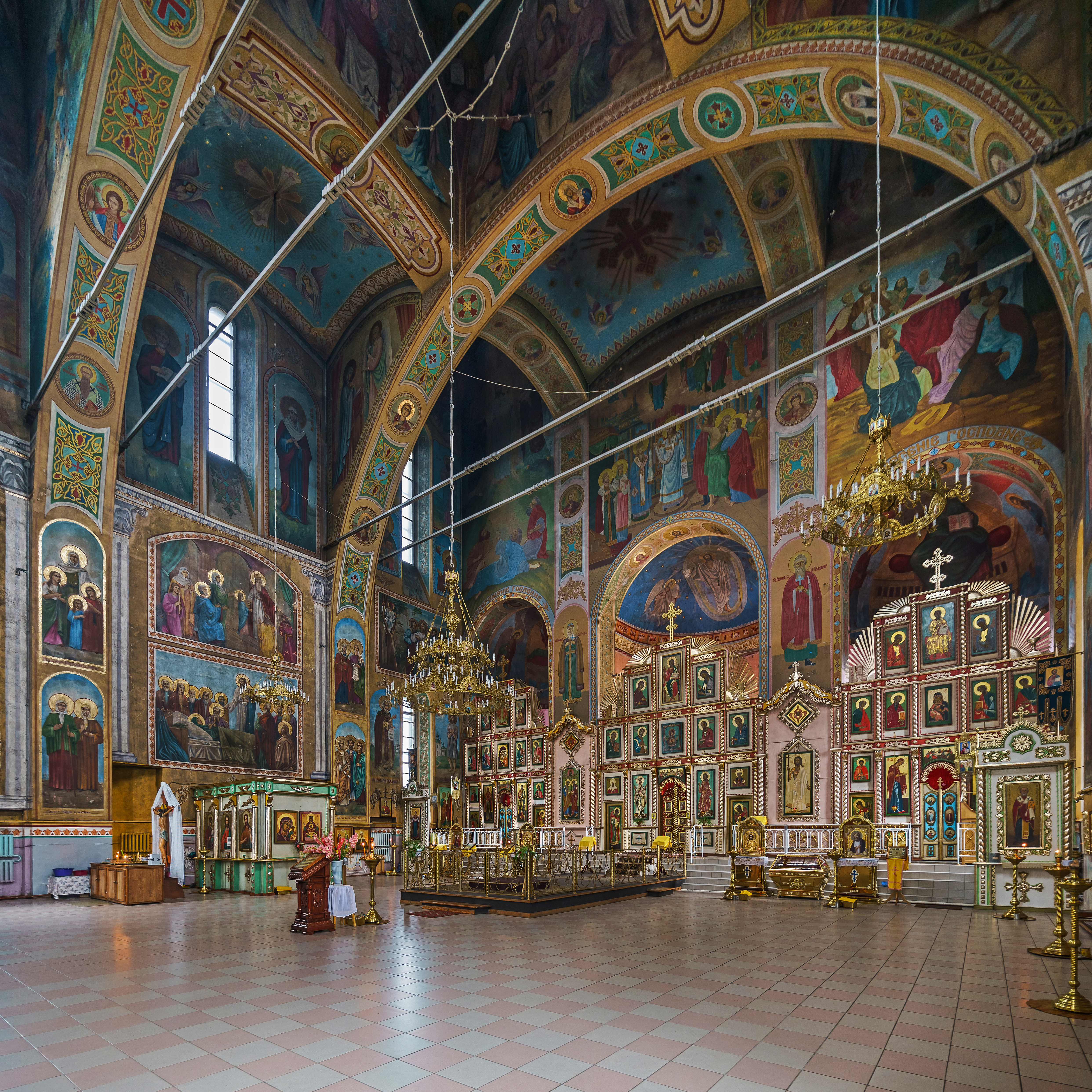 Interior of the Resurrection Church in Vichuga, Ivanovo Oblast, Russia.